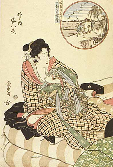 Hiroshige, bijin, Series Eight Views, Comparing Women and Scenery, early 1820s